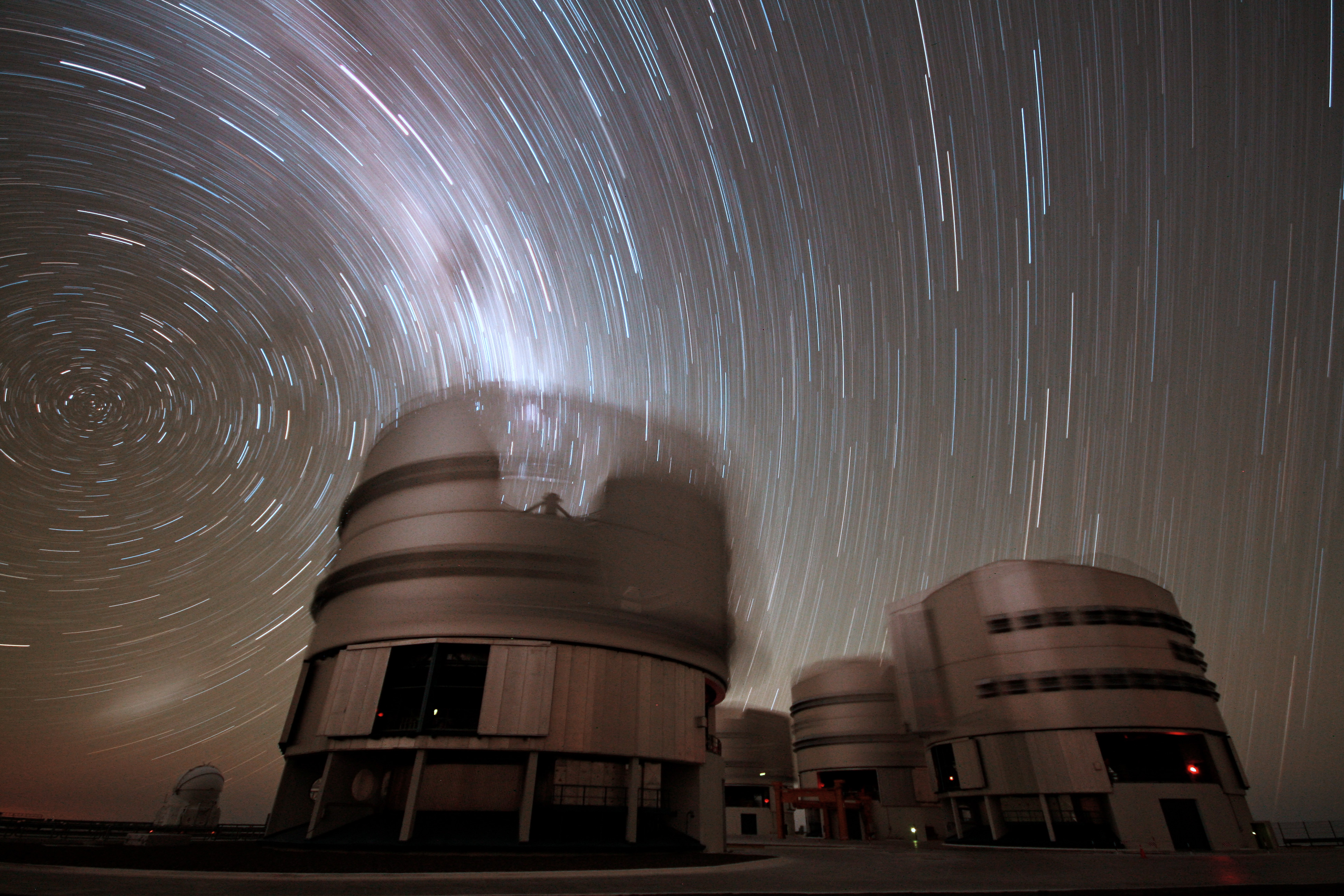 Startrails over Cerro Paranal; A view of Paranal from May 1987.